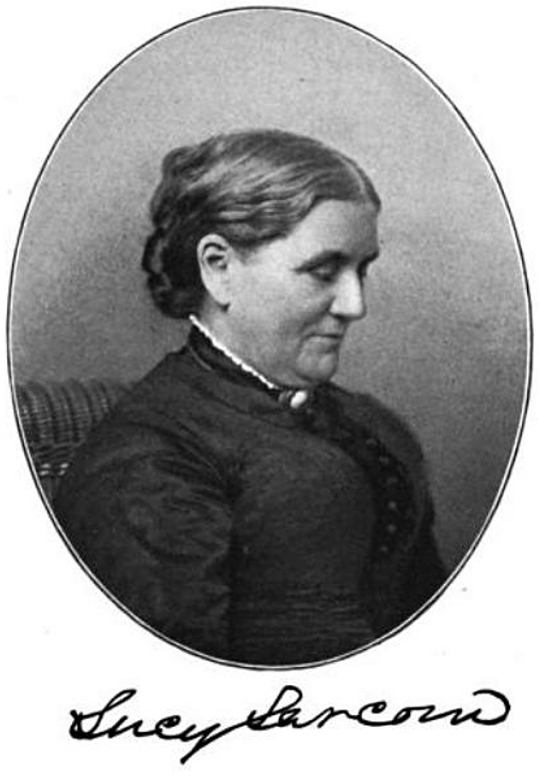 Photo of American poet Lucy Larcom with facsimile signature. From A Portrait Catalogue of the Books Published by Houghton, Mifflin and Company, published by Houghton, Mifflin and Company, 1906.